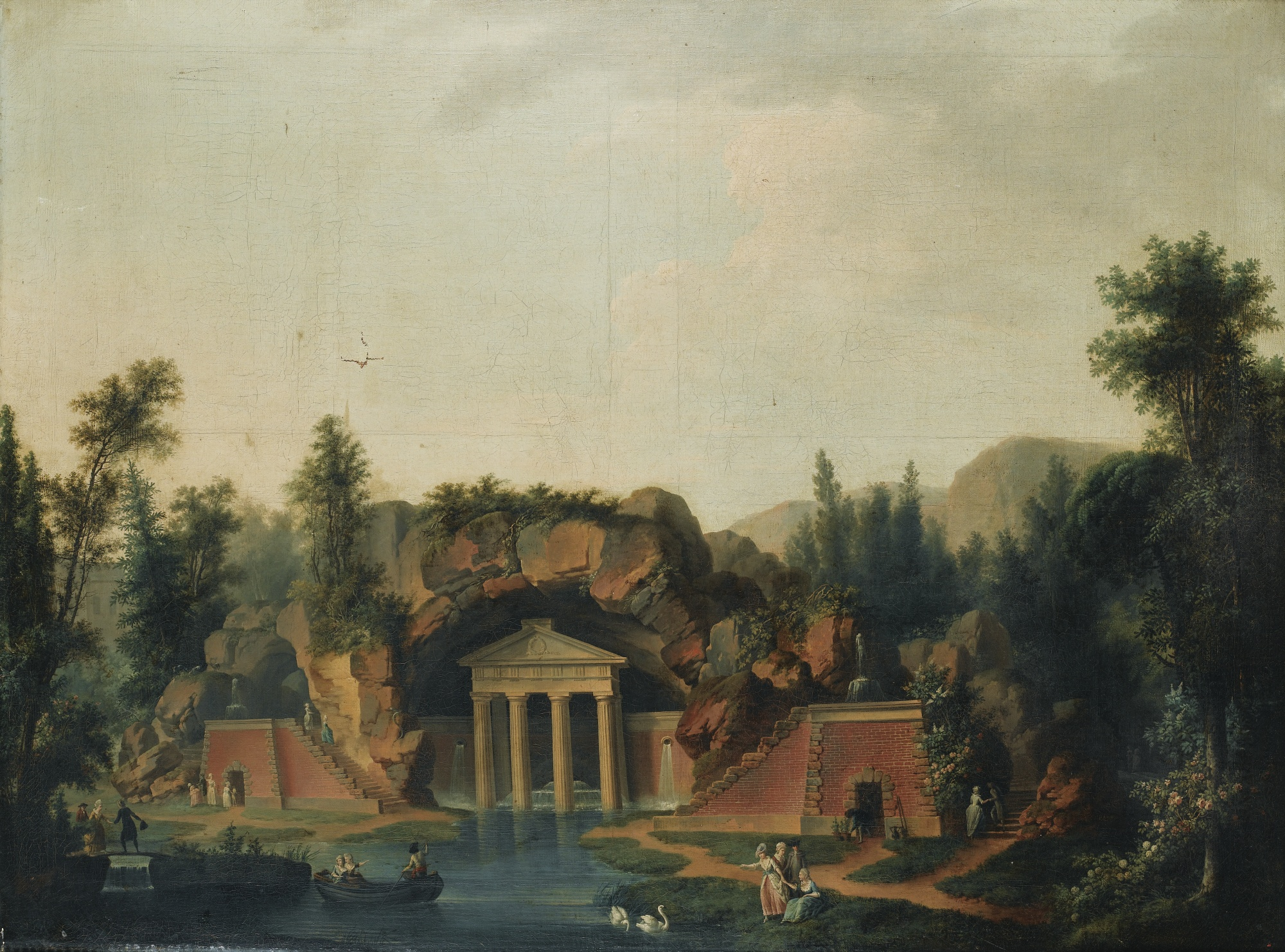 « La Folie Saint-James à Neuilly-sur-Seine » (« The Folie Saint-James in Neuilly-sur-Seine »). Oil on canvas by Claude-Louis Châtelet depicting the "Grand Rocher" of the garden of the Folie Saint-James in Neuilly-sur-Seine (France). 18th-century painting. Dimensions : 96 x 128 cm.